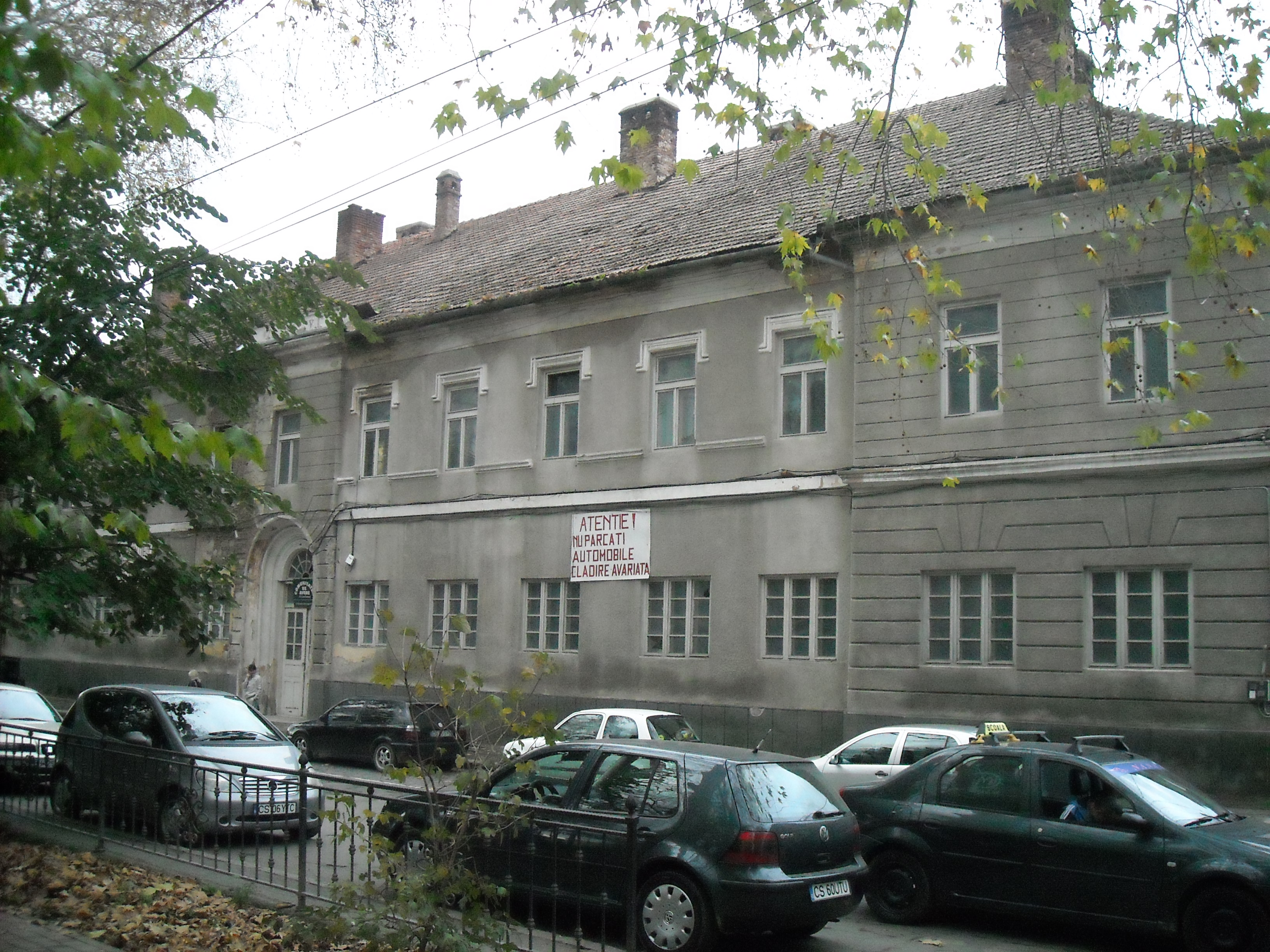 the former headquarters of the border-guard community of property (funds) in Caransebeș